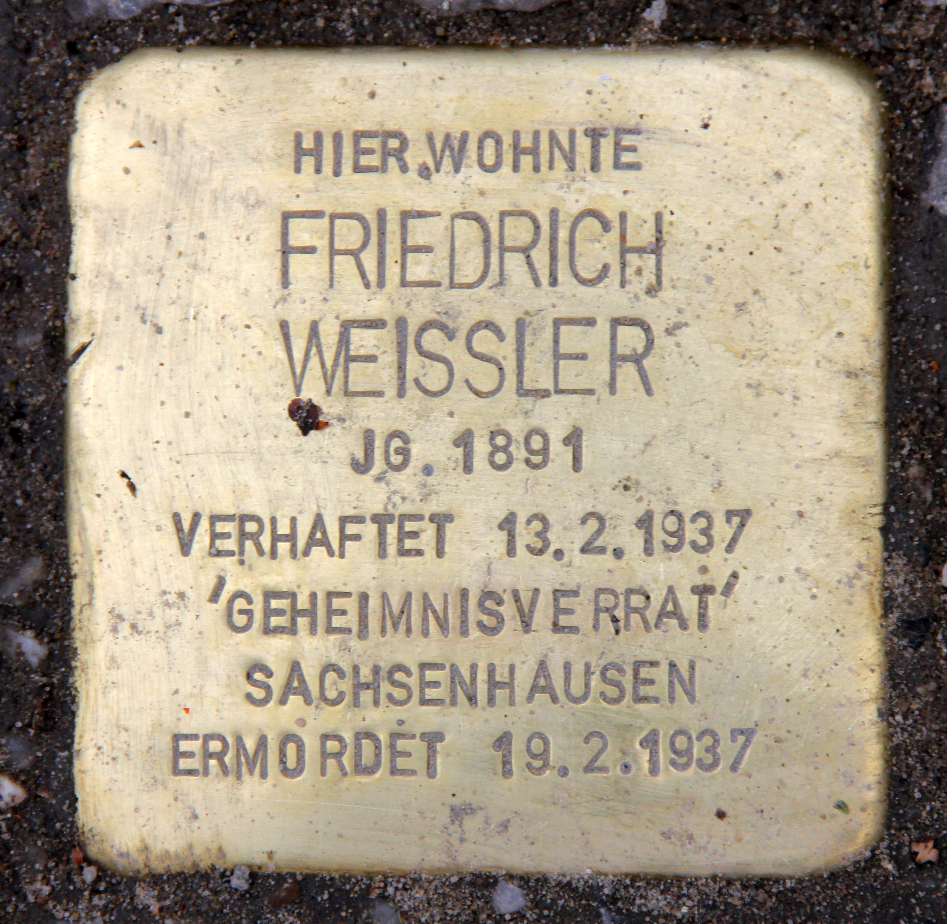 "Stolperstein" (stumbling block), Friedrich Weißler, Meiningenallee 7, Berlin-Westend, Germany